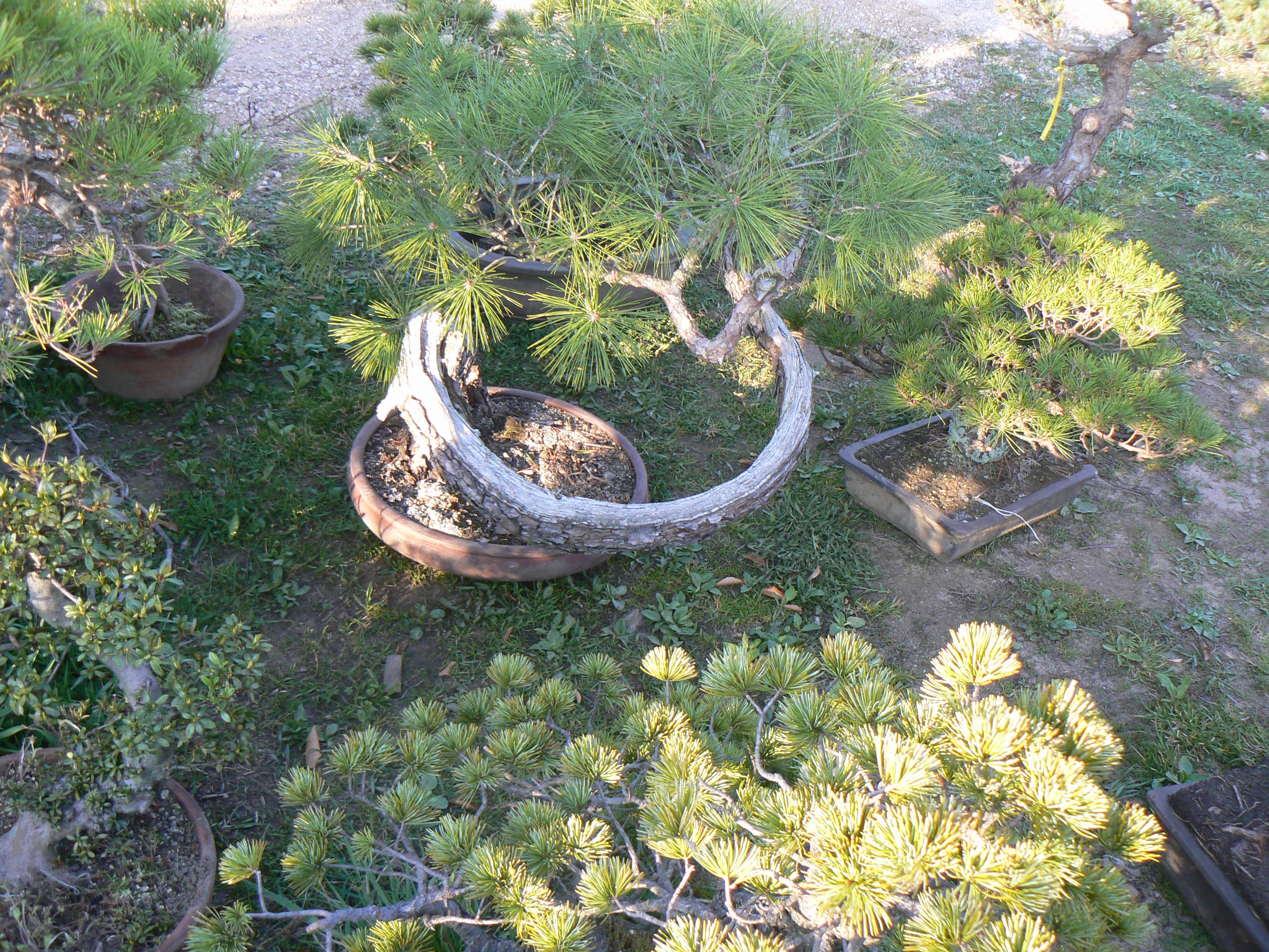 Bonsai in Japan Garden of Mažučiai in Lithuania. Just got from Japan. Česky: Bonsai v Japonské zahradě v Mažučiai v Litvě, západně od Darbėnů. Čerstvá (2010-04-30) zásilka z Japonska.